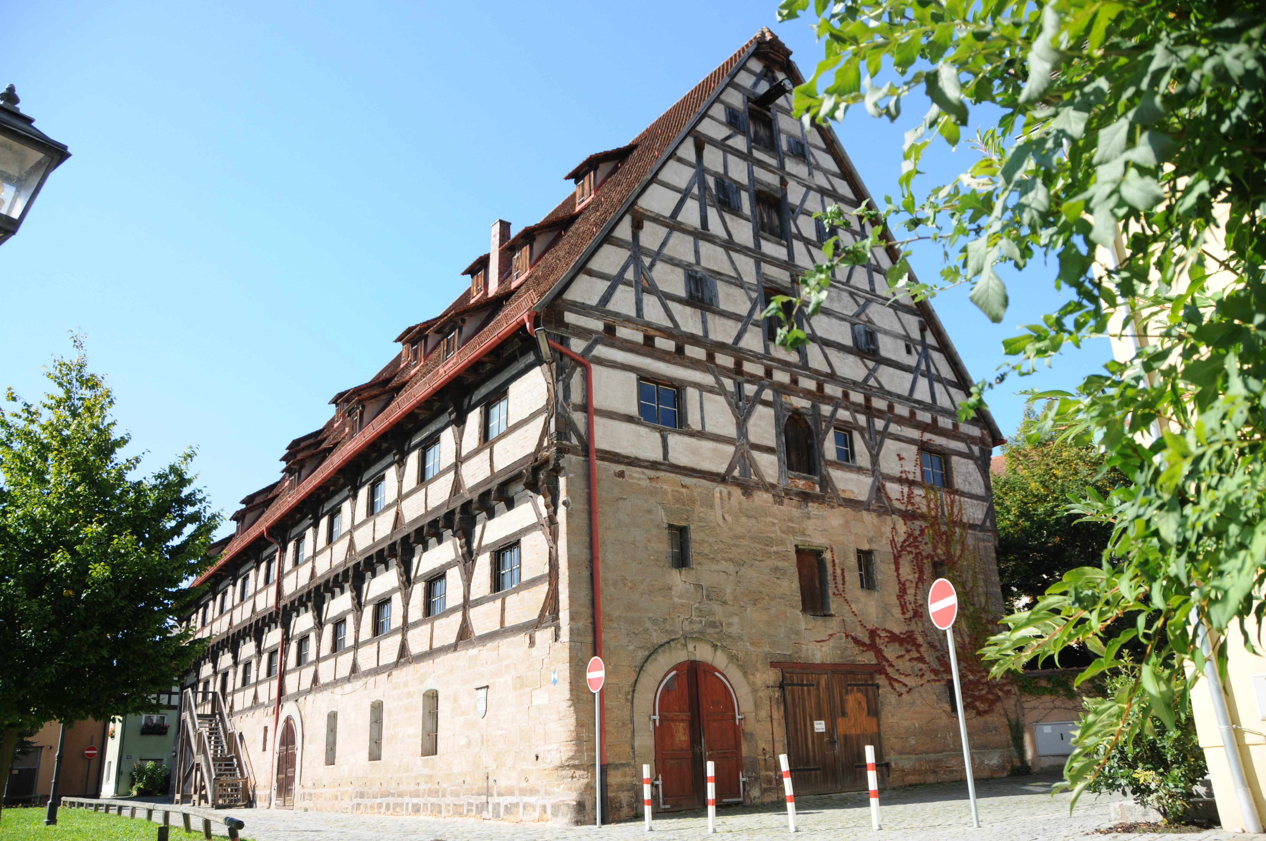 Kornhaus (corn house) Spalt, Bavaria